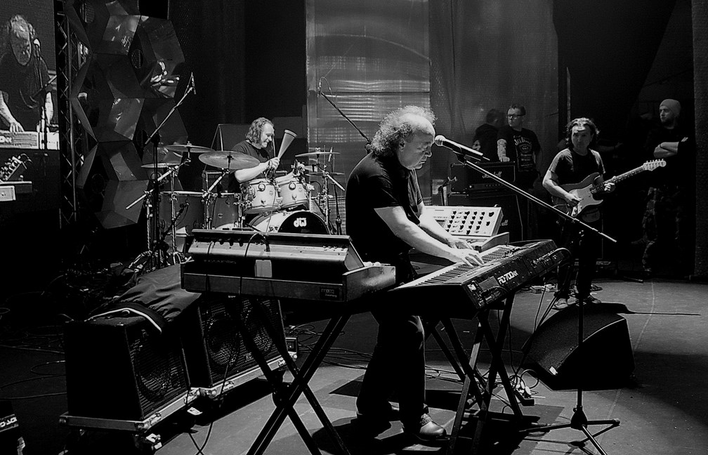 SBB during Fryderyki in Poland.